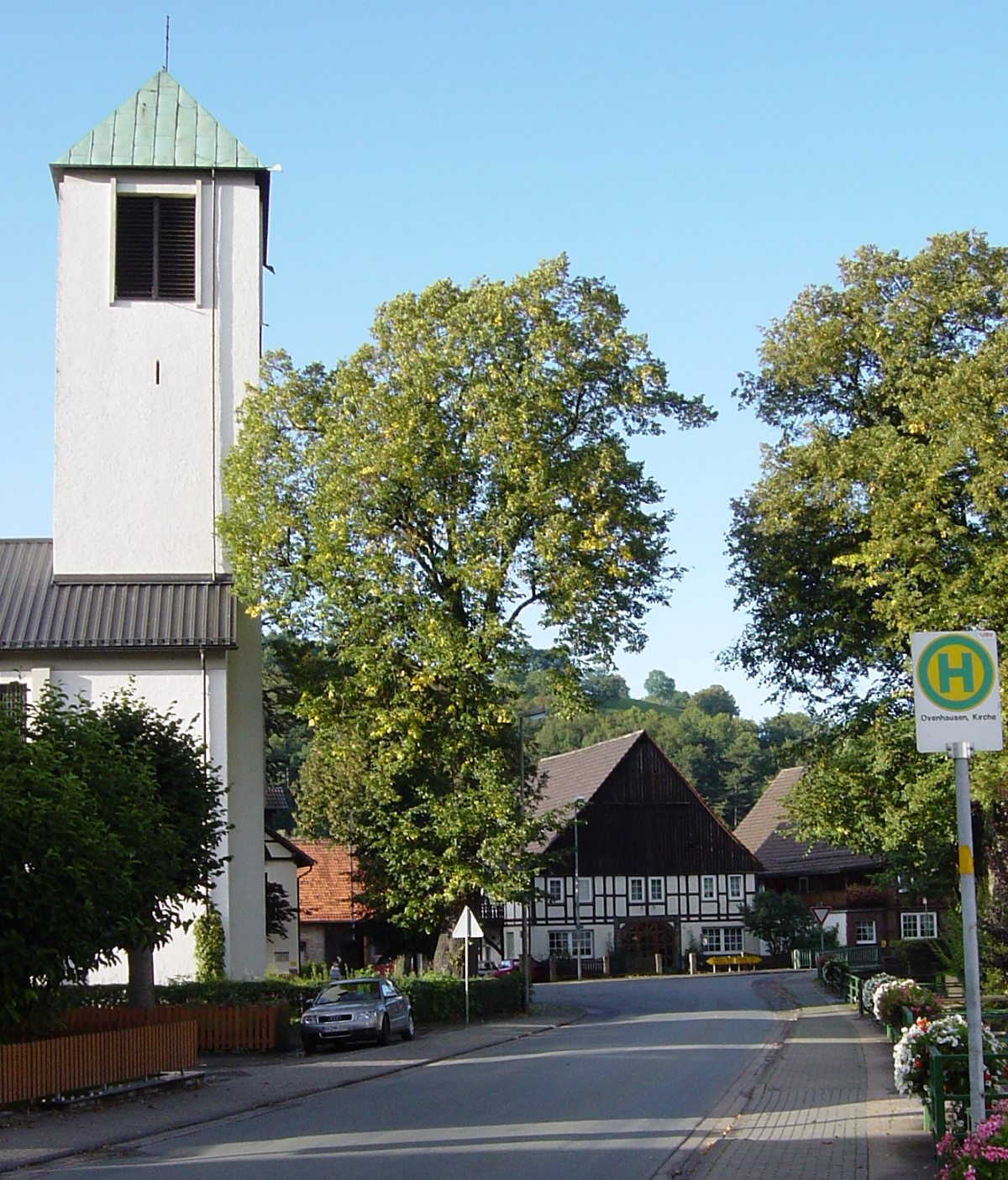 Catholic Church St. Maria Salome Ovenhausen, Höxter (Germany)